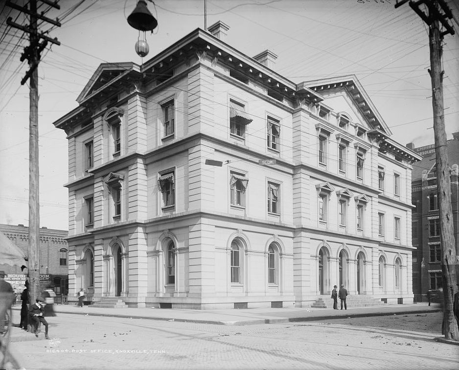 The Customs House, or Old Post Office, in Knoxville, Tennessee, USA. Built in 1873, and designed by architect Alfred B. Mullett, this building now houses the Calvin M. McClung Historical Collection, and is listed on the National Register of Historic Places.